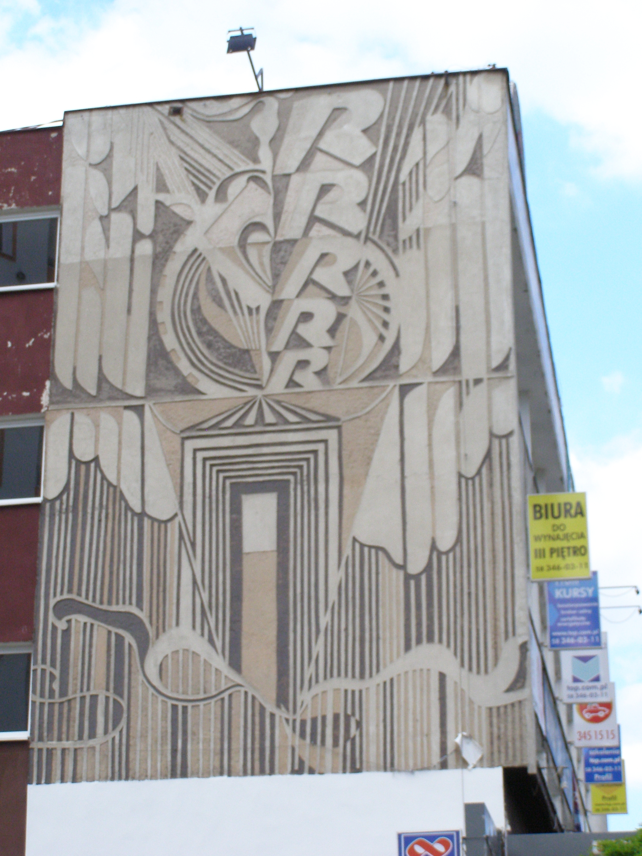 Gdańsk - sgraffito on an office building in Klonowa Str.